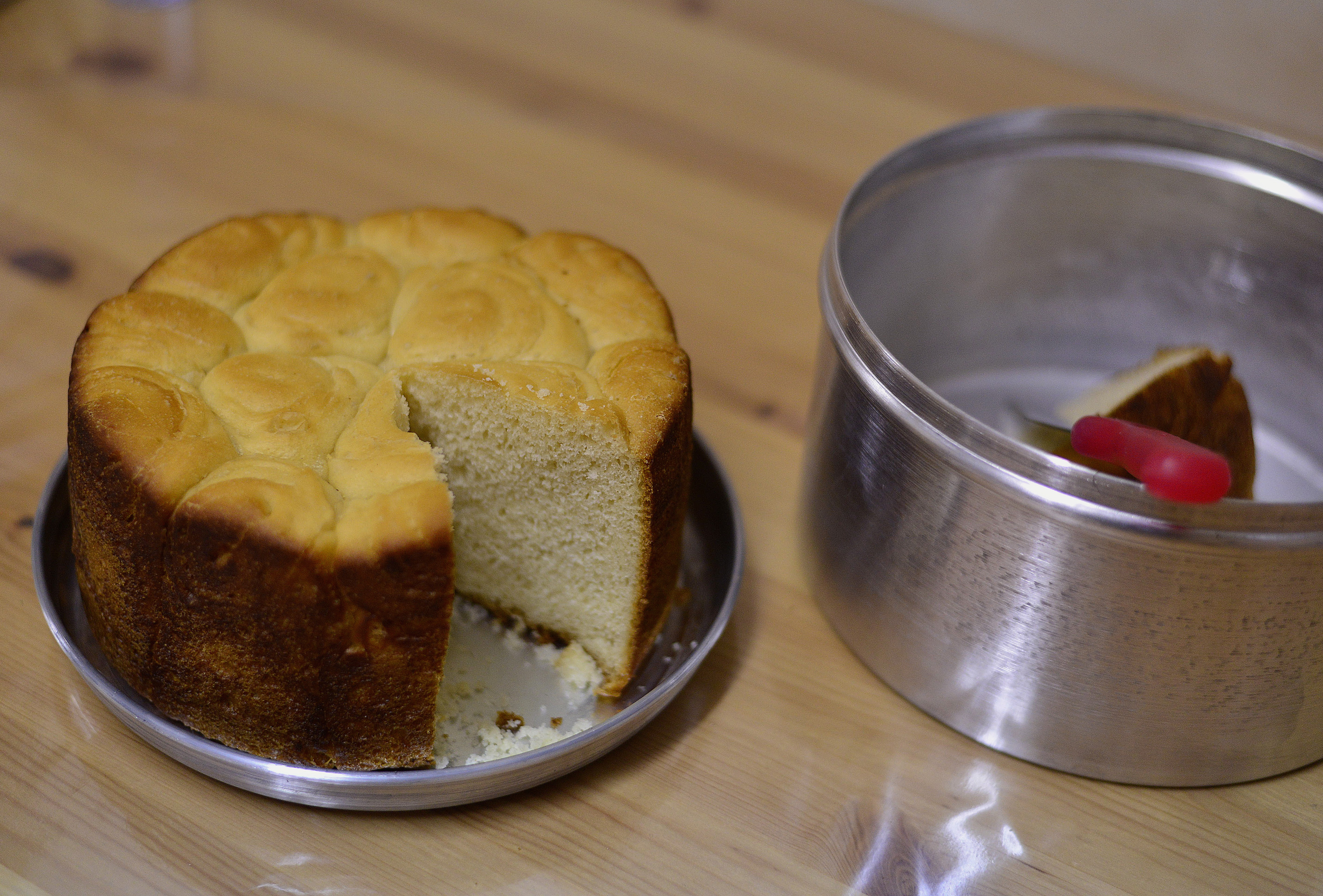 Traditional Sabbath-day bread, known as "Kubaneh"